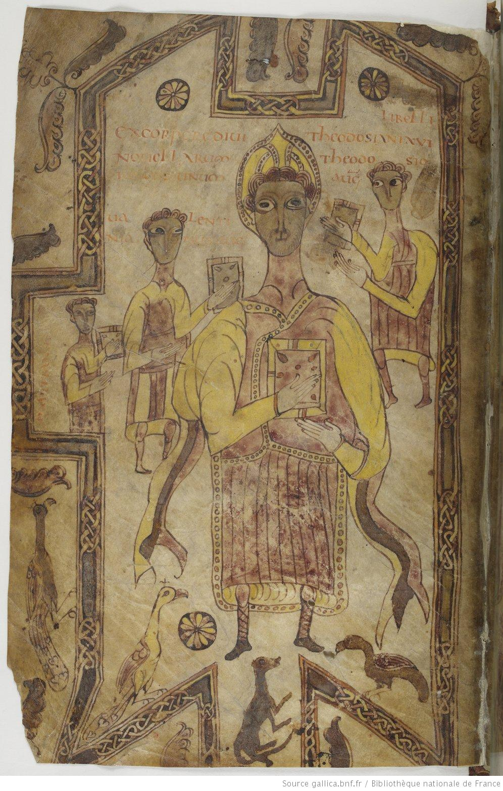 The frontispiece of Paris, BN, lat. 4404, with portraits of Theodosius, Valentian, Marcian, and Majorian.